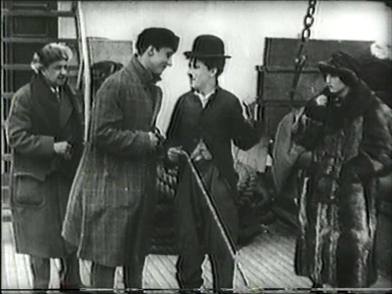 End Scene from "The Gold Rush".